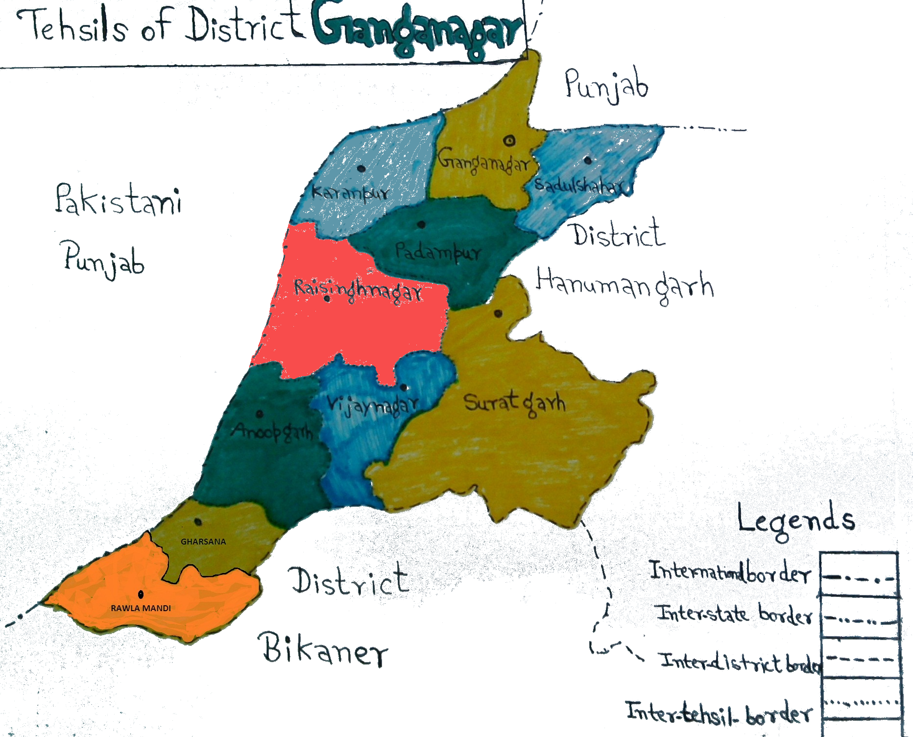 I have drawn this on a drawing sheet.It shows 9 tehsils of district Ganganagar,Rajasthan,India. Shemaroo (talk) 12:34, 6 January 2011 (UTC)